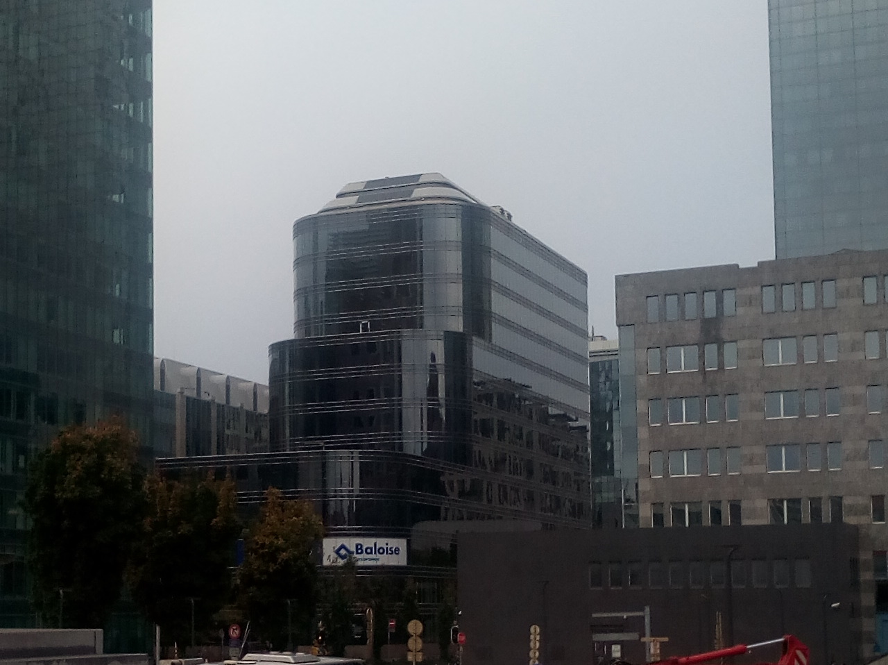 Phoenix building in Brussels, October 2019